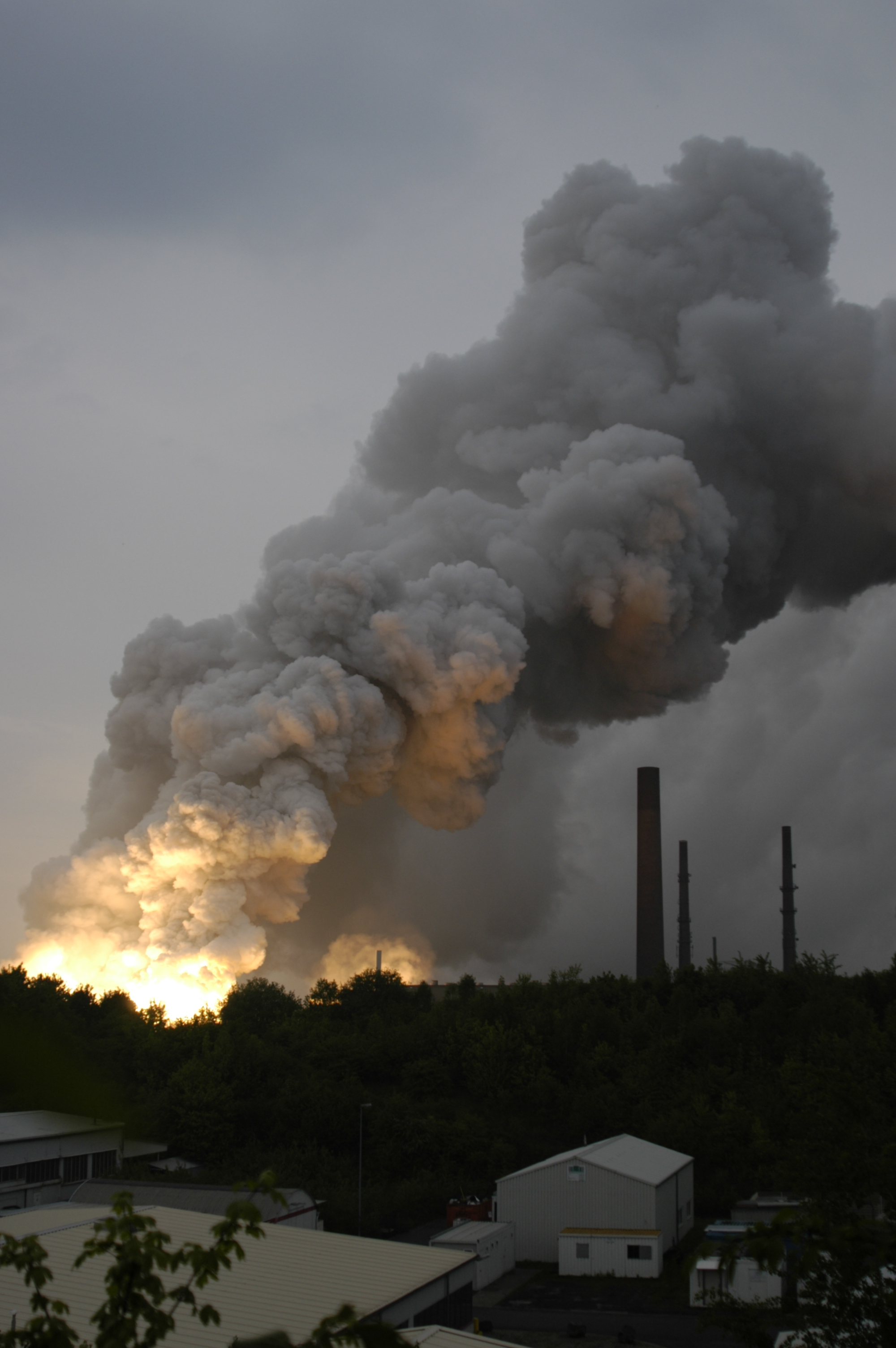 Magnesium fire at the Volkswagen Baunatal factory in Kassel on 13 May 2006